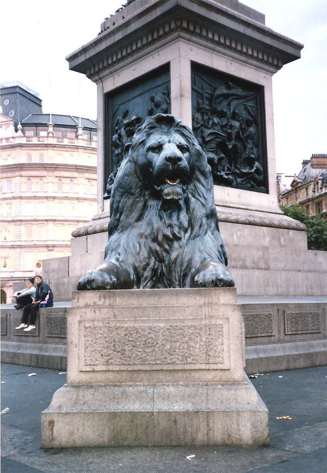 One of four Lions around the base of Nelson's Column